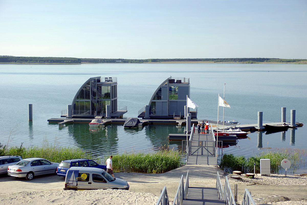 Floating houses on the Lake Geierswalde, Saxony, Germany